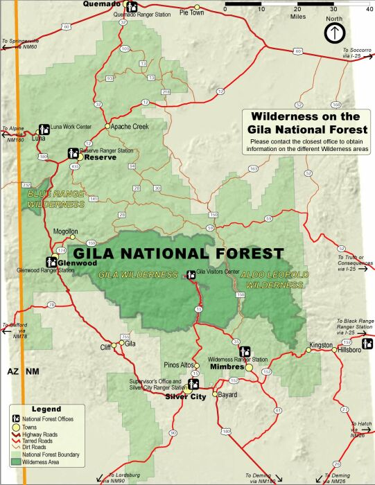 Map of the Gila National Forest (light green), with designated wilderness areas (dark green) — located in southwestern New Mexico. Includes the large Gila Wilderness area, in the Mogollon Mountains.